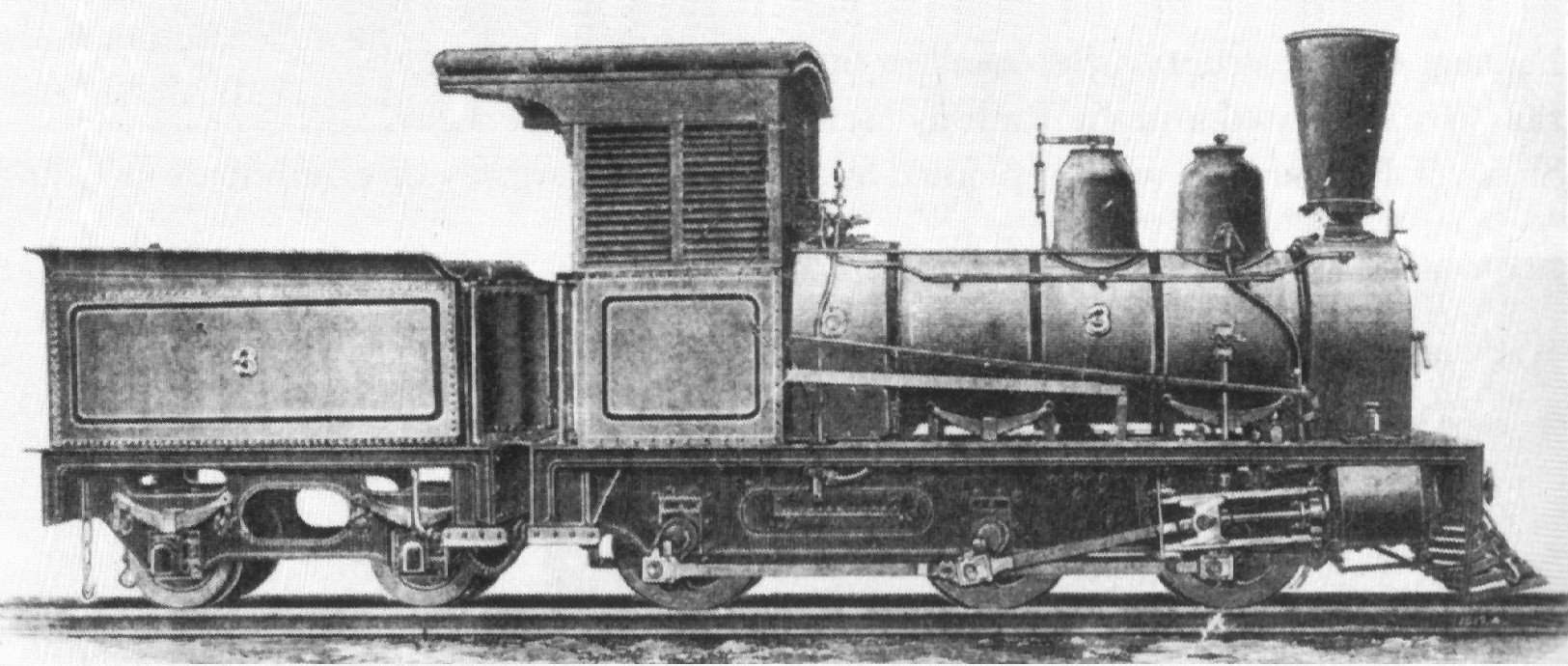 Beira Railway No. 3 (Nos. 1 and 2 where identical)